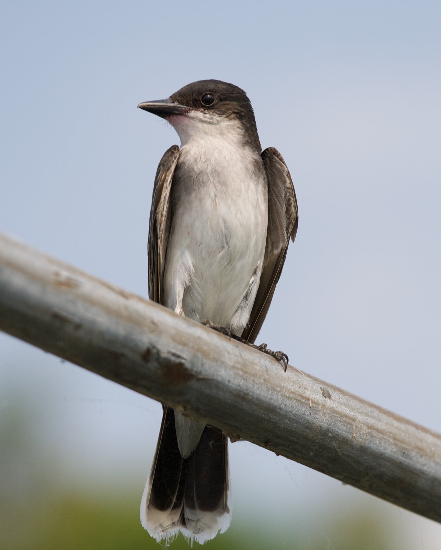 A close-up profile picture of an Eastern Kingbird (Tyrannus tyrannus). Taken in Union Springs, NY, USA.